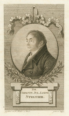 Christian Julius Ludwig Steltzer (1758–1831), German Jurist, taught law in Halle, Moscow, Tartu and Berlin. Rector of the University of Tartu (Dorpat) in 1816.